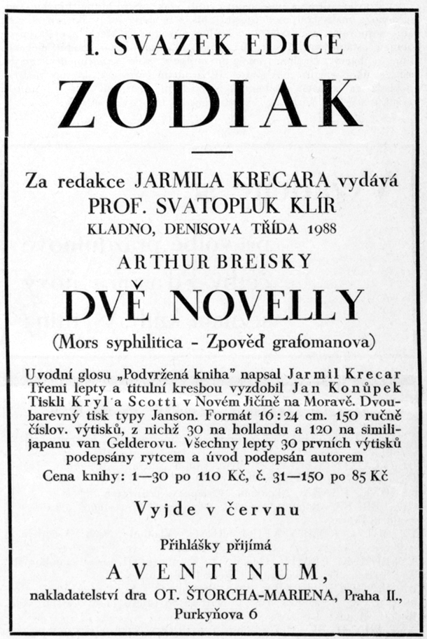 Zodiak edition, contemporary advertising